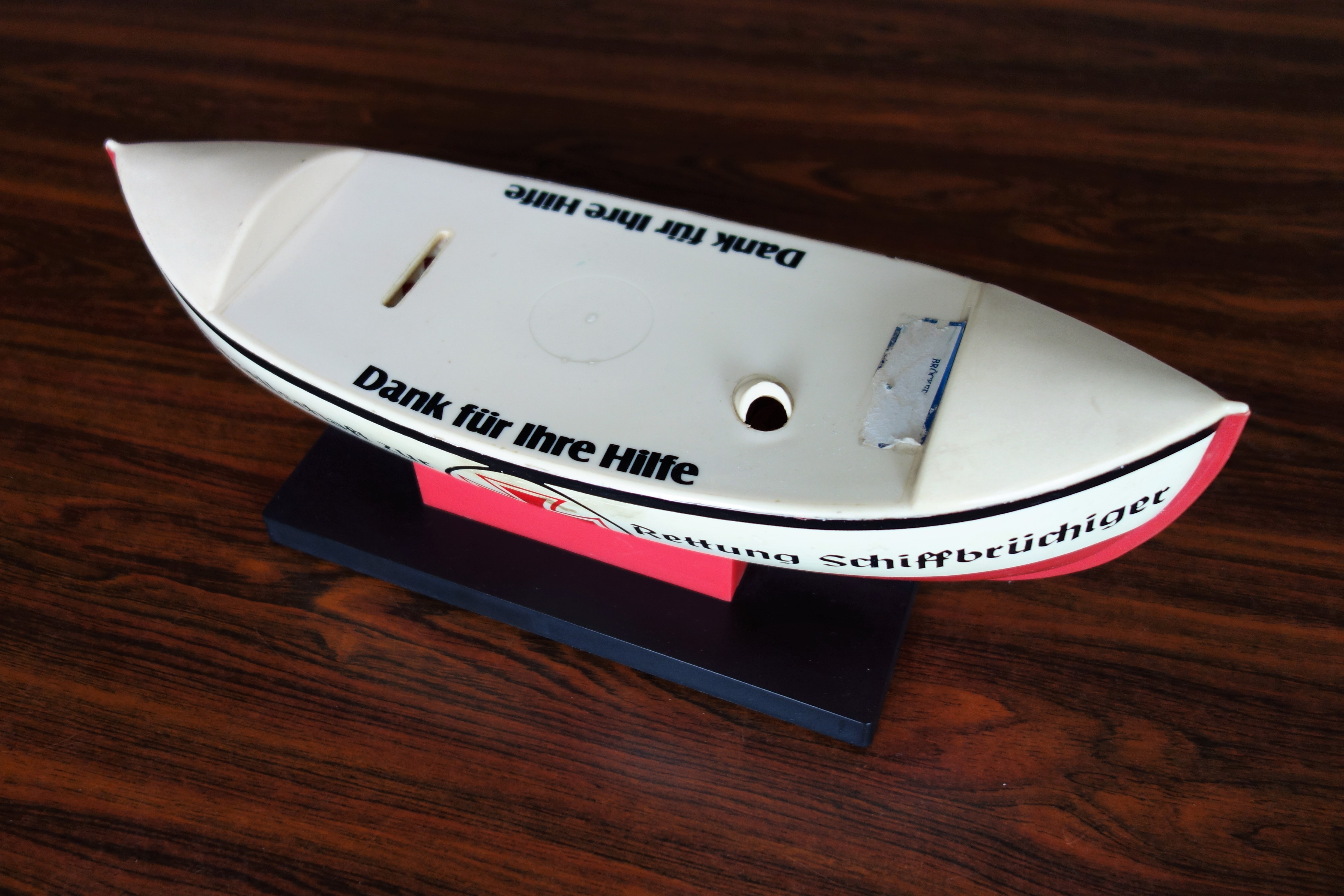 Model of an old rescue boat in use as collecting box for the German sea rescue organisation (Deutsche Gesellschaft zur Rettung Schiffbrüchiger)